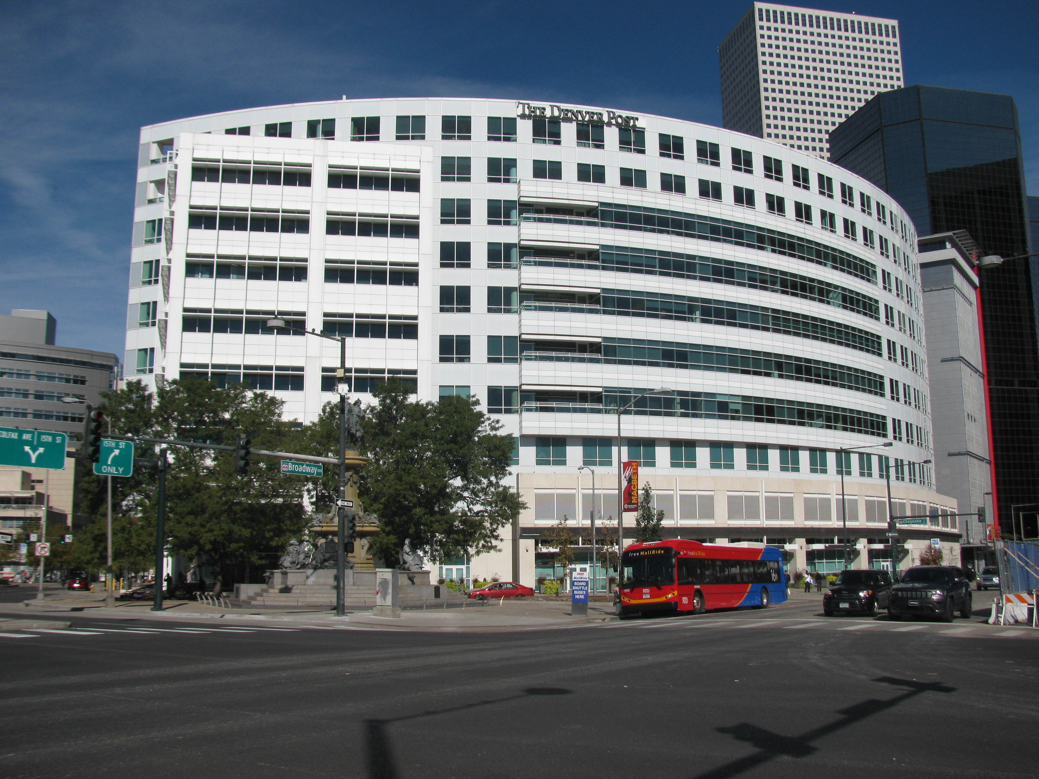 Headquarter of Denver Post, daily newspaper of Denver, Colorado, United States.